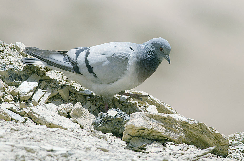 Hill Pigeon, near Dras, Jammu and Kashmir, India